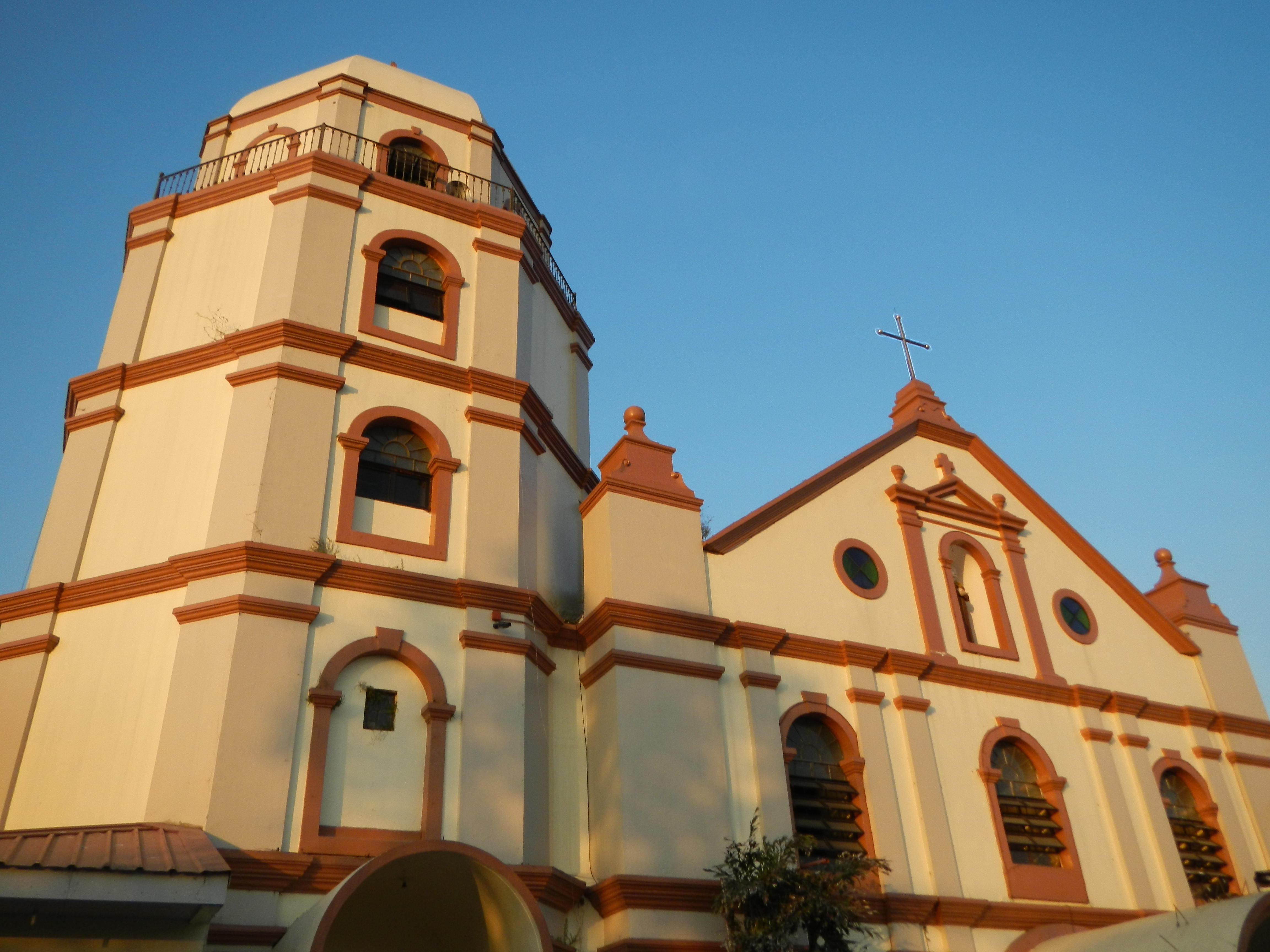 Obando Church (San Pascual de Baylon Parish Church & Diocesan Shrine of Our Lady of the Immaculate Concepcion of Salambao, beside and adjoining the Colegio de San Pascual Baylon Obando, Bulacan).